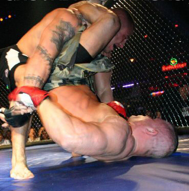 Lance Cpl. George R. Lockhart (left), radio reconnaissance platoon, 2nd Radio Battalion, II Marine Expeditionary Force, fights his way out of a head lock from opponent Scott Harper during round two of the “Knuckle Up” Mixed Martial Arts Competition in Atlanta, Ga. Feb. 24th. Lockhart, who has been in the professional fighting circuit since he was 18, won by a technical knockout in the third round and won his second light heavyweight championship title.